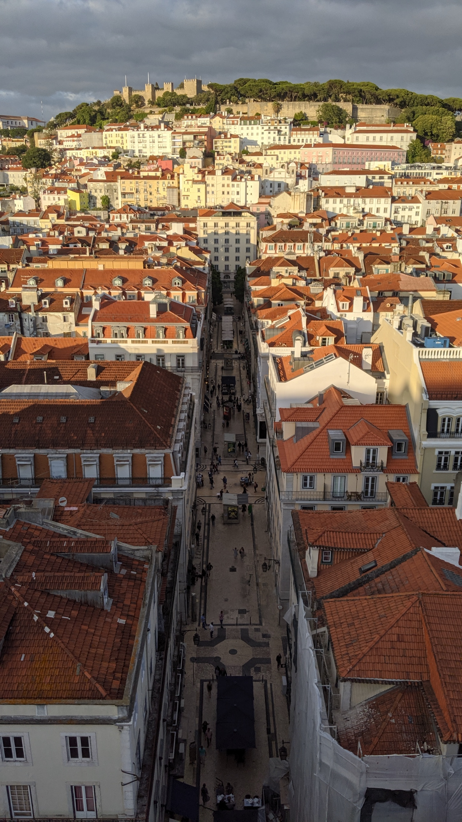 Summer evening view of Castelo de São Jorge and Rua de Santa Justa from the observation deck above Elevador de Santa Justa